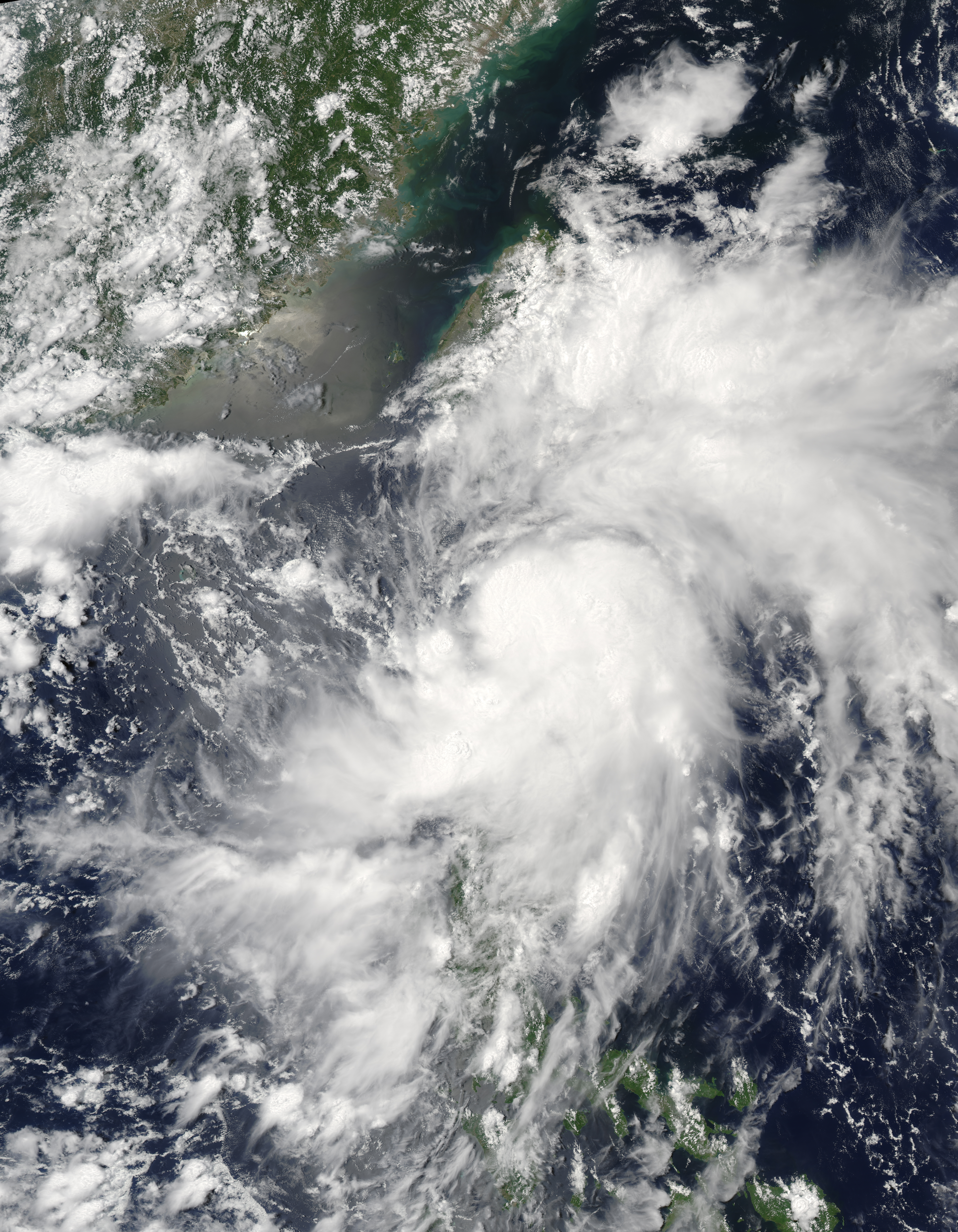 The Moderate Resolution Imaging Spectroradiometer (MODIS) on NASA’s Aqua satellite captured this natural-color image of Tropical Storm Cimaron 08w, on July 17, 2013 north of Luzon, Philippines. At that time, the system had a central pressure of 1002hpa.